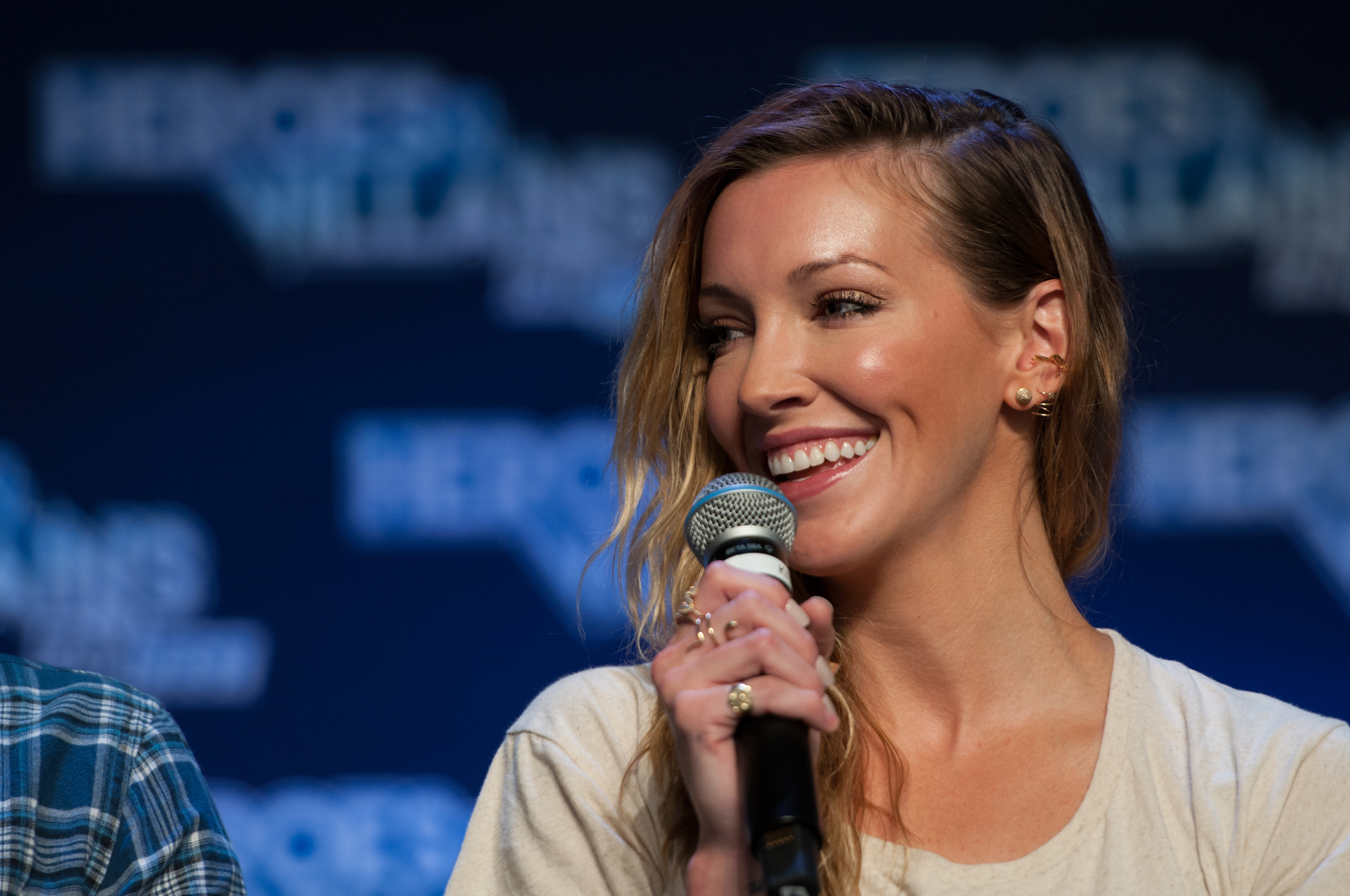 Katie Cassidy HVFF 2016